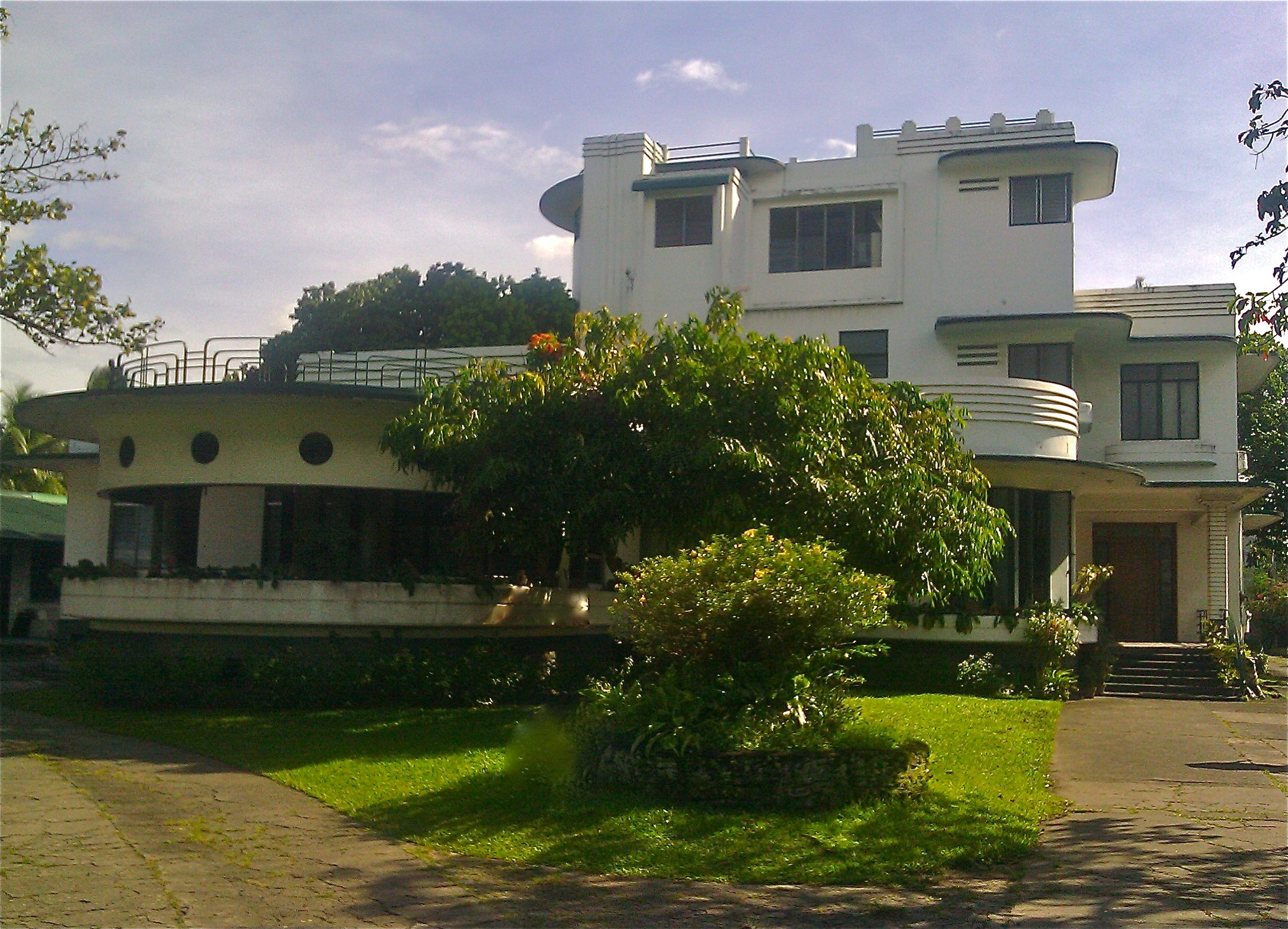 Ancestral home of the late Don Generoso Villanueva